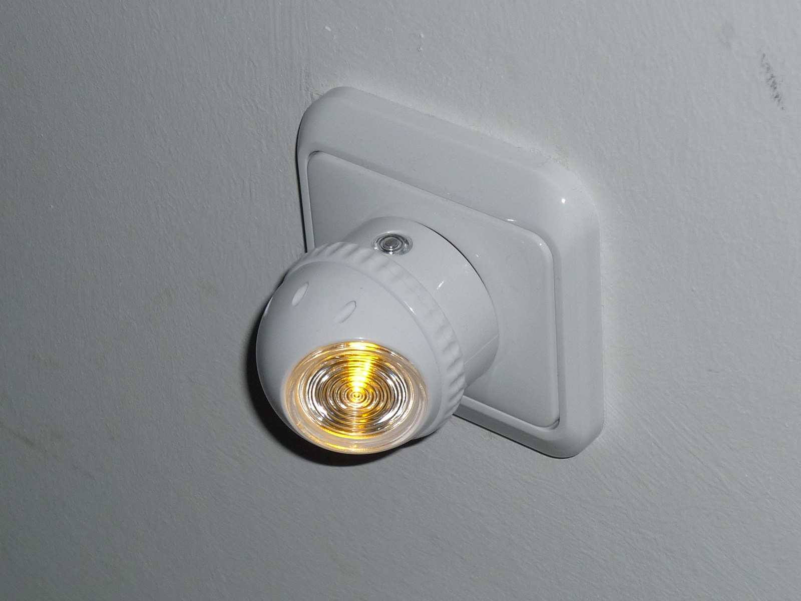 Nightlight, LED-based, 0.4 Watts, plugged directly into 230V power socket, with darkness sensor